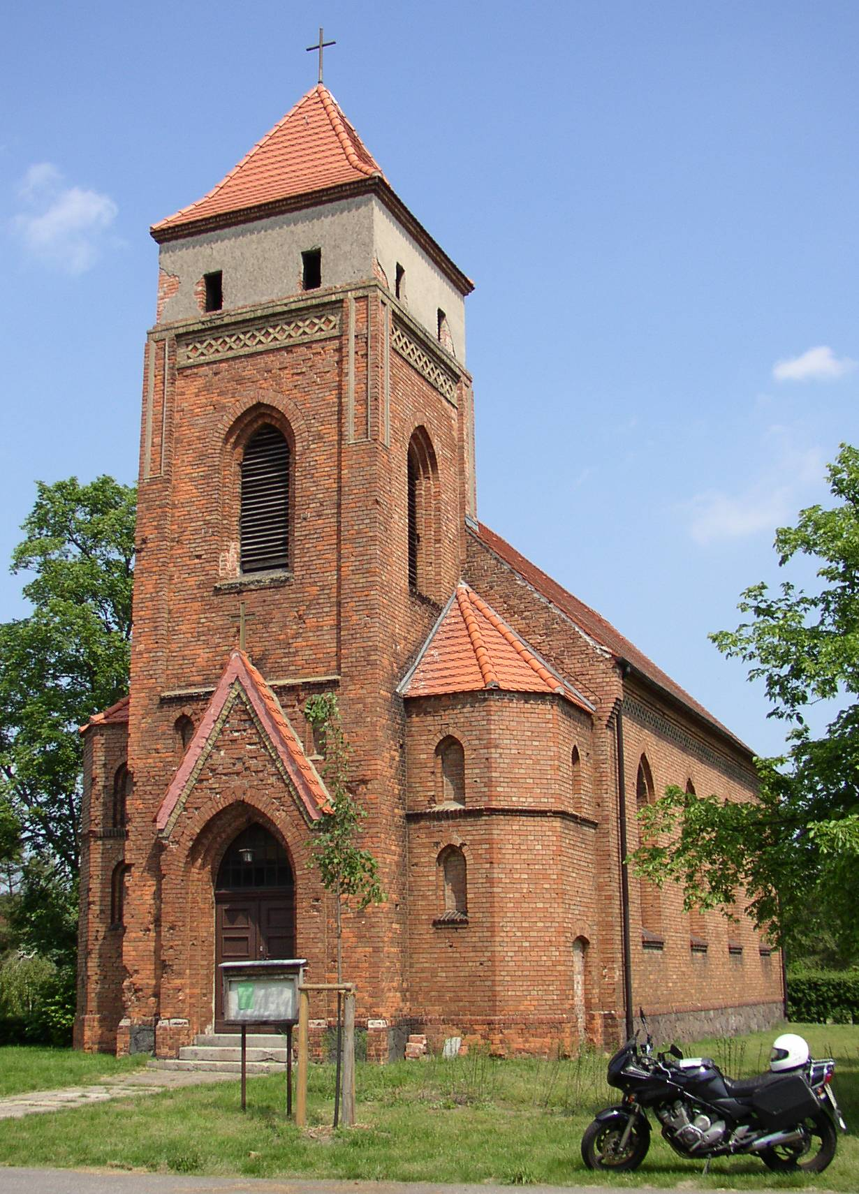 Church in Bliesdorf in Brandenburg, Germany